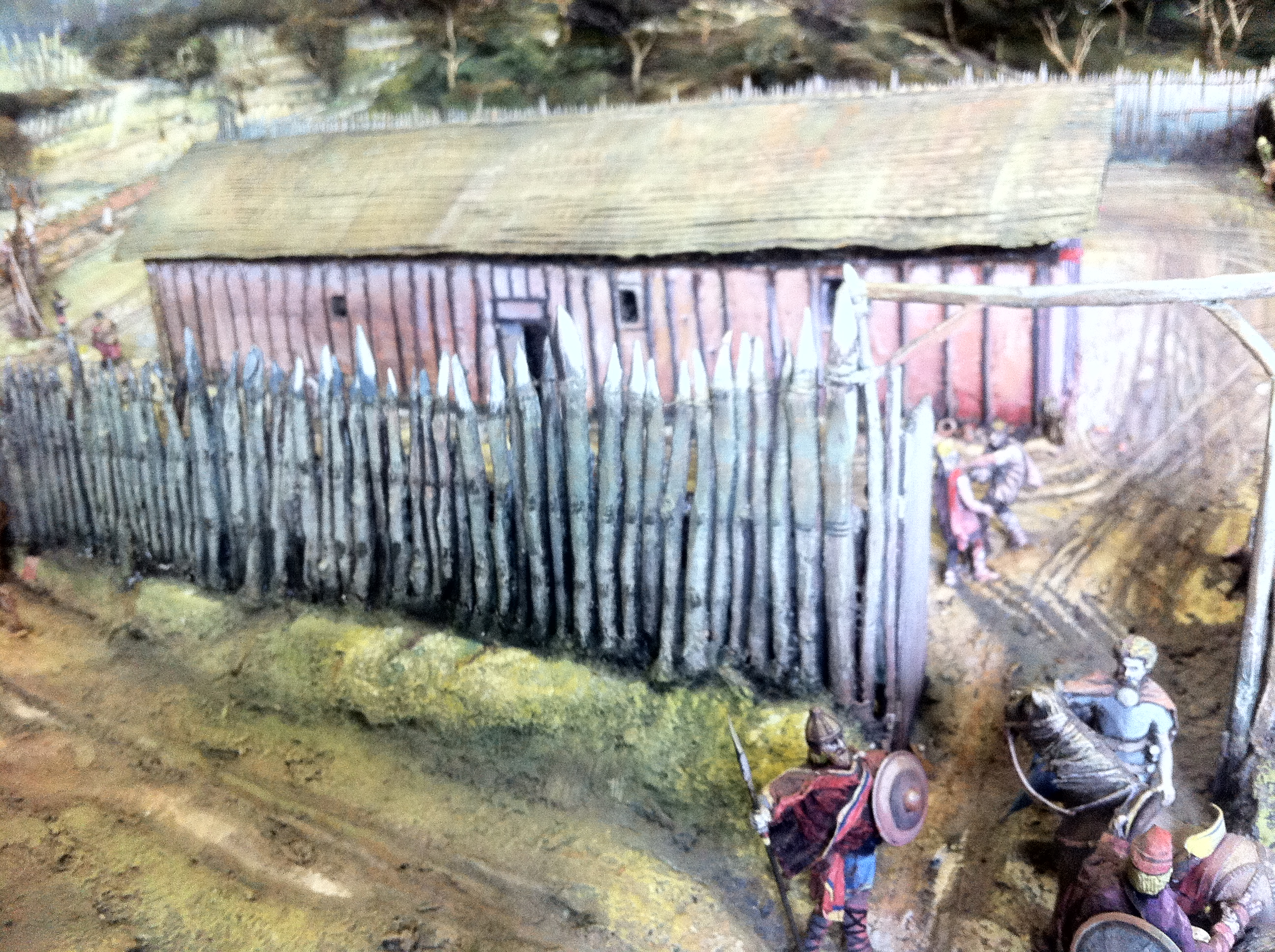 Reconstruction of the Saxon palace at Cheddar, taken at Cheddar Gorge